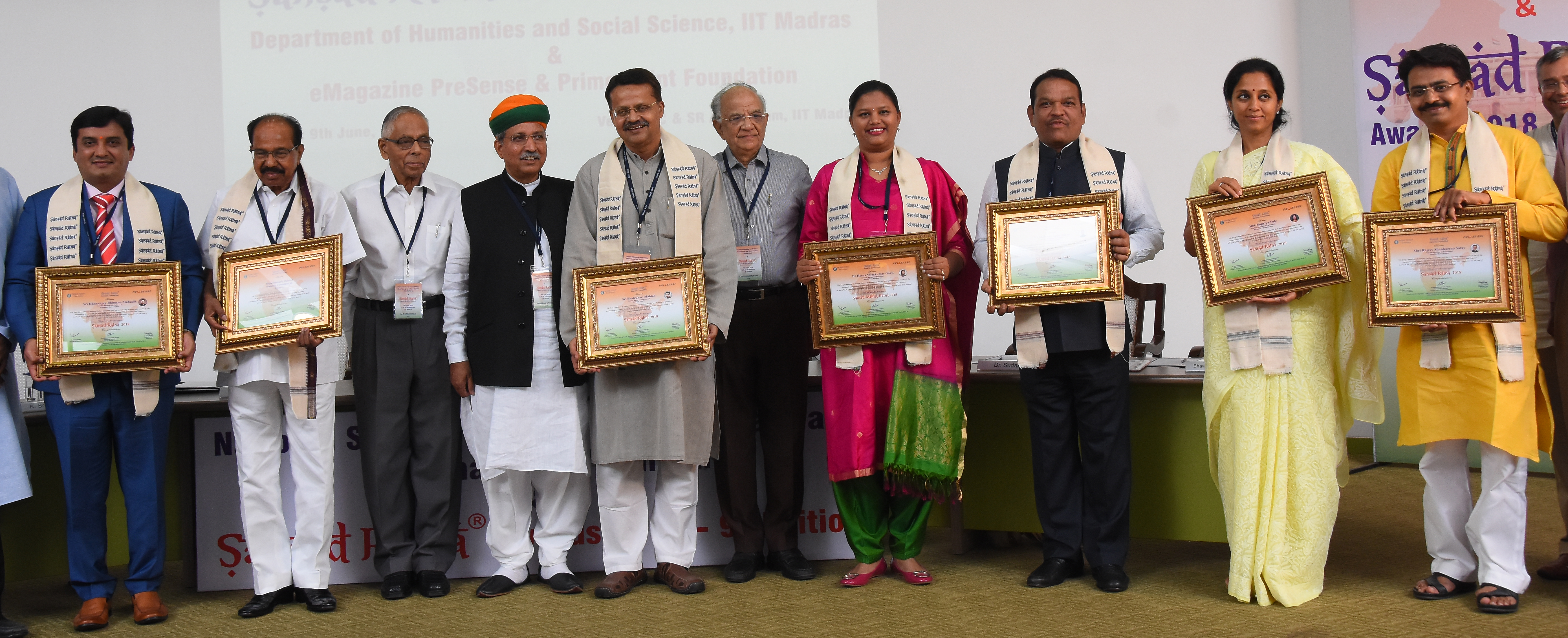 9th edition of Sansad Ratna Awards 2018 was held at IIT Madras on 9th June 2018. Seven MPs received the Award for their outstanding performance in the 16th Lok Sabha till the end of Budget Session 2018.